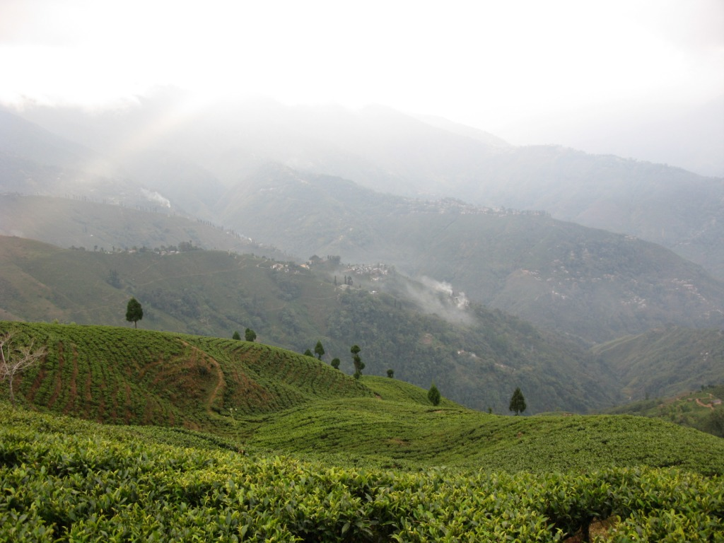 A tea plantation in Darjeeling.